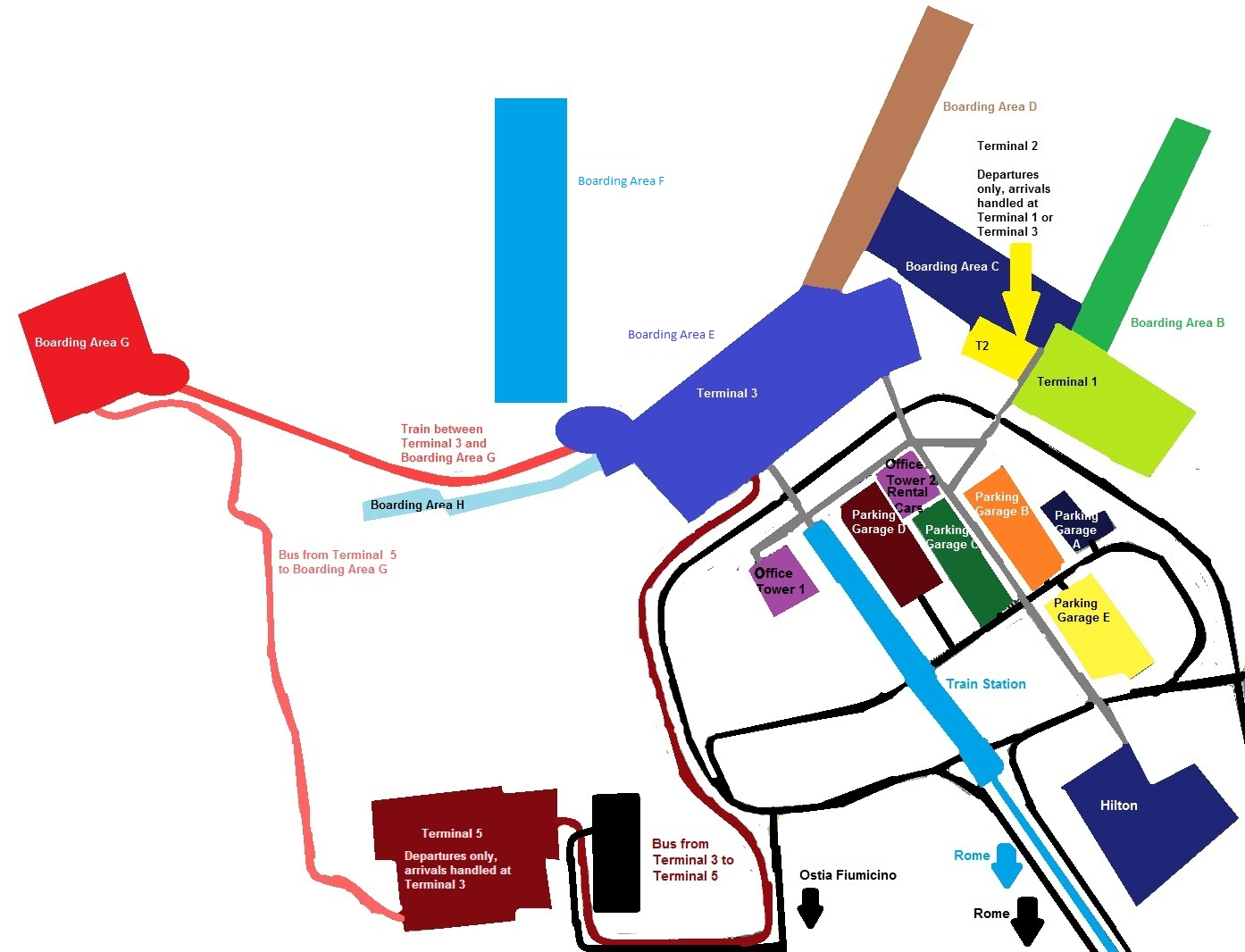 A simple terminal map of . Created by me with help from Google Earth and Fiumicino Airport's terminal maps.